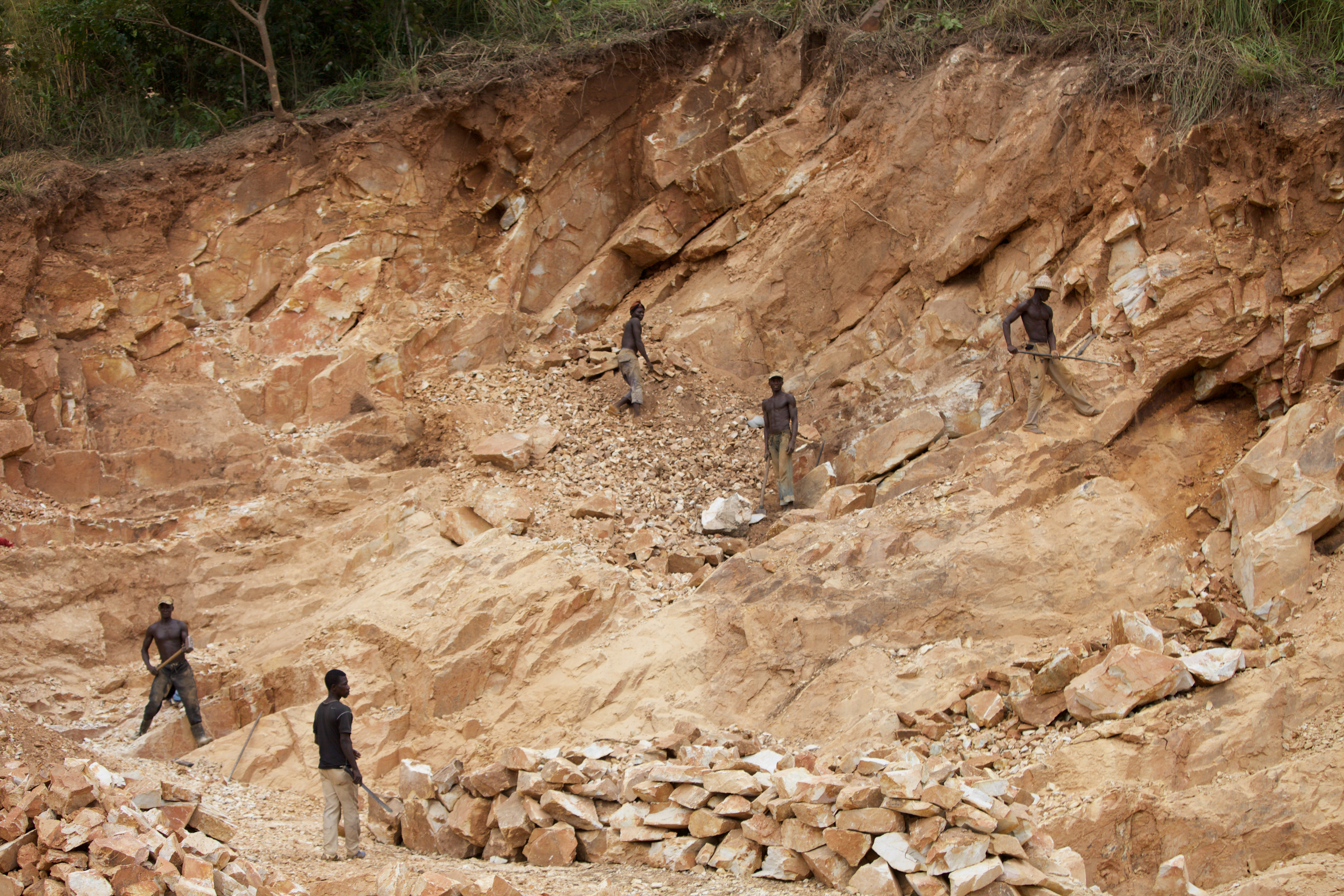 This is an image of "African people at work" from Central African Republic